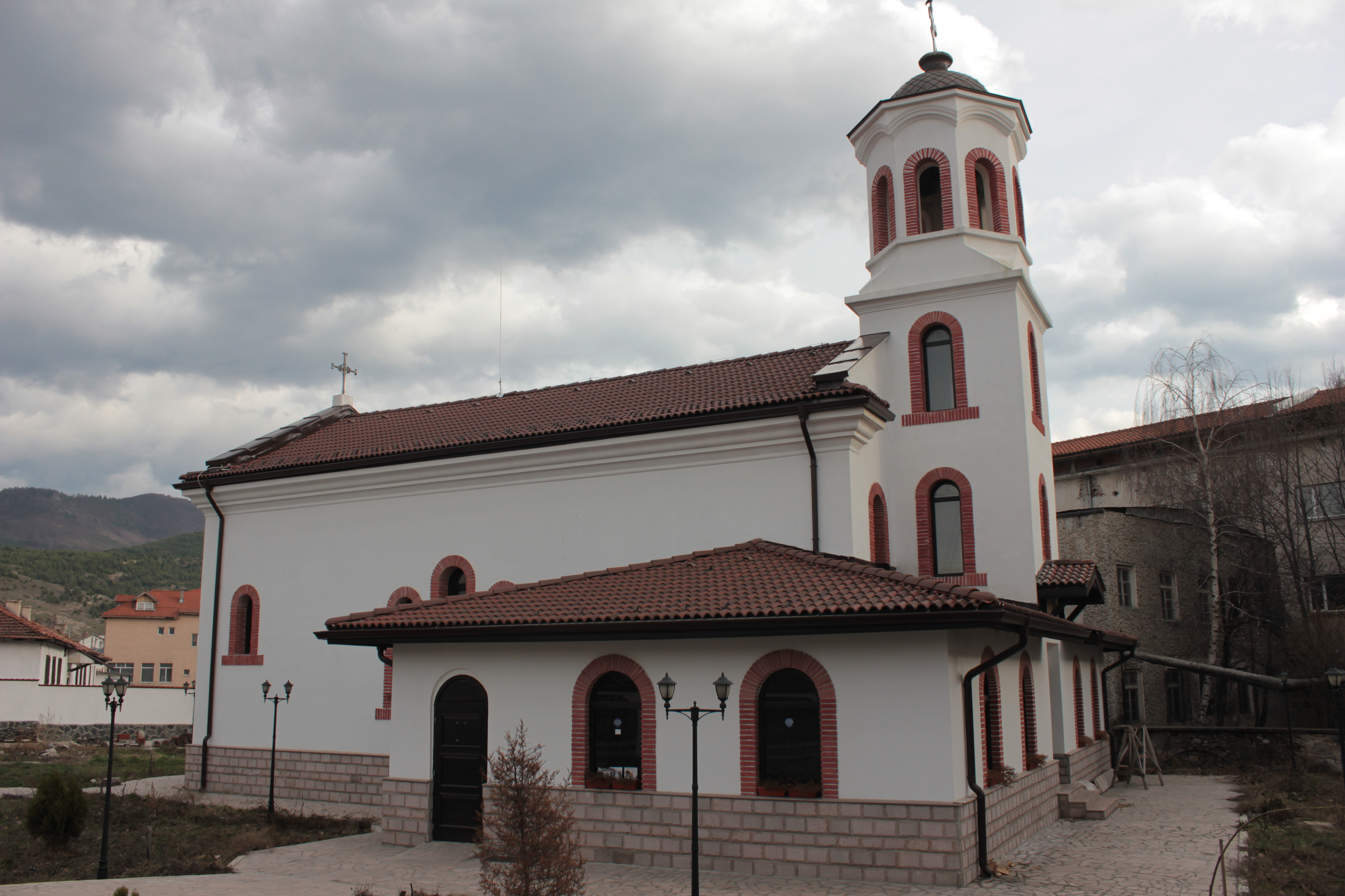 Saints Constantine and Helena Kostandovo church